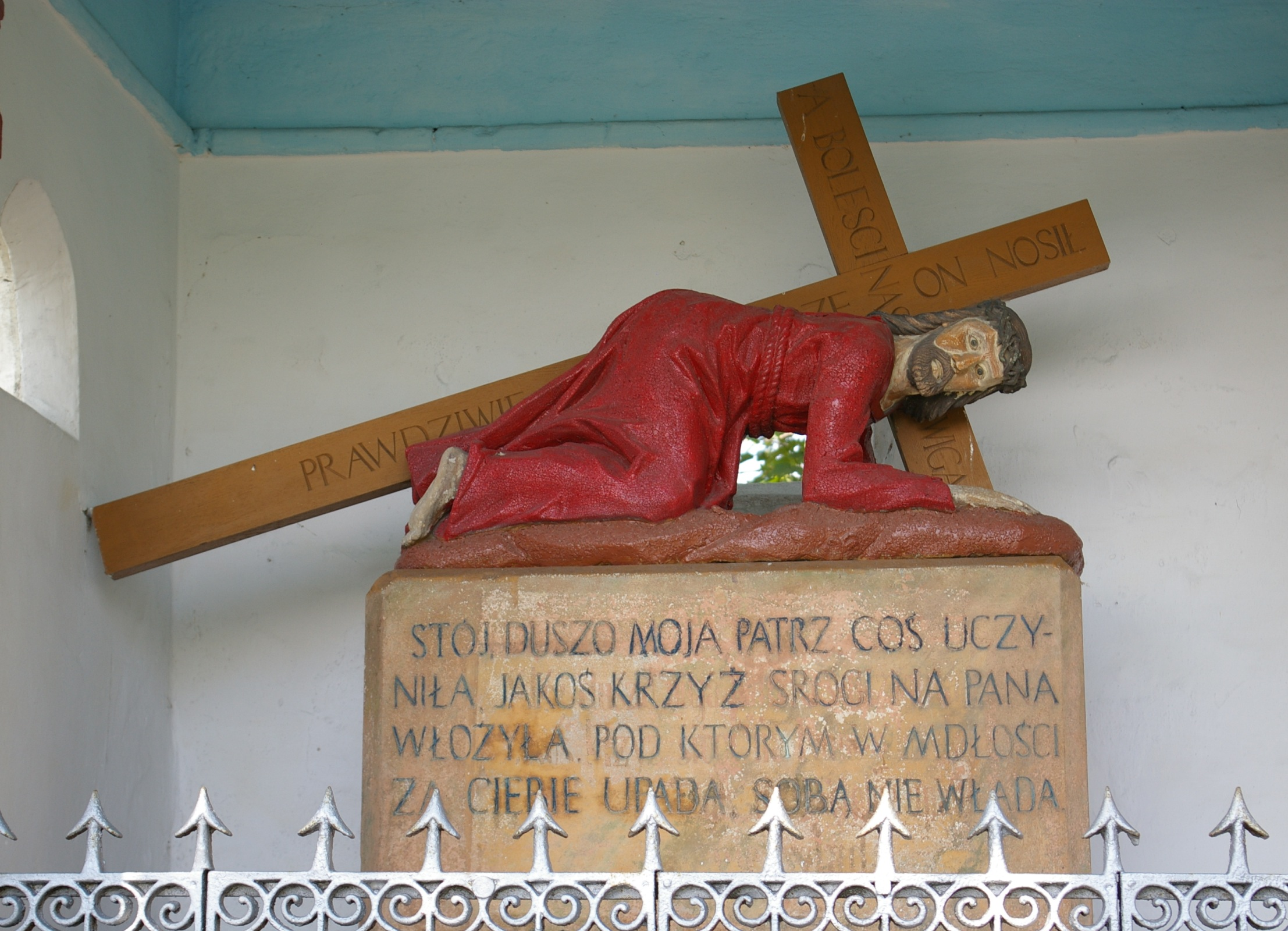 Chapel in Gorysławice, Poland